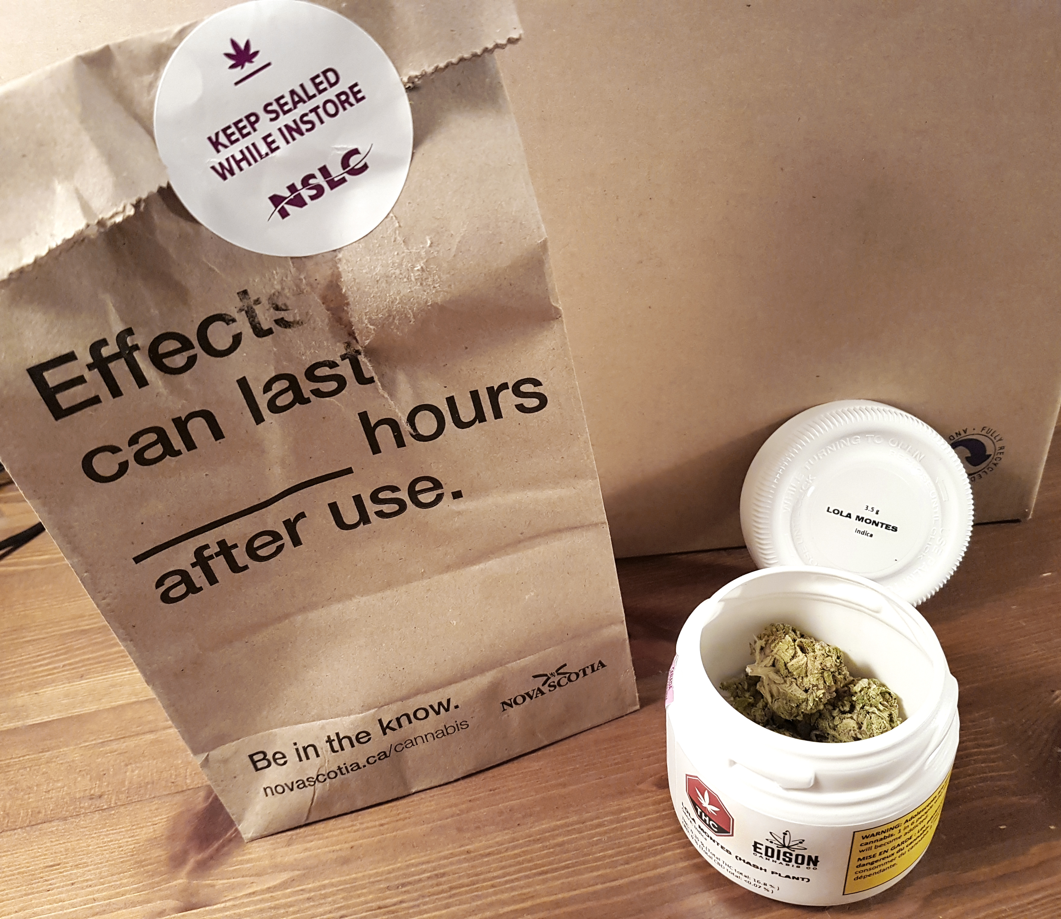 This photo shows an open 3.5 gram plastic canister of indica-dominant strain Lola Montes by the Edison Cannabis Co. and a brown paper bag from the Nova Scotia Liquor Corporation (NSLC) cannabis store in Halifax, Nova Scotia, Canada, after a purchase of legal recreational cannabis made on October 18, 2018.